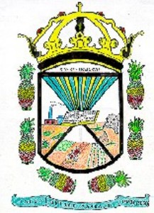 Its a "escudo" of this city